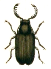 Xyletinus pectinatus, from Calwer's Käferbuch, Table 29, Picture 11. Taxonomy was updated to 2008, using mostly the sites Fauna Europaea and BioLib. Please contact Sarefo if the determination is wrong!